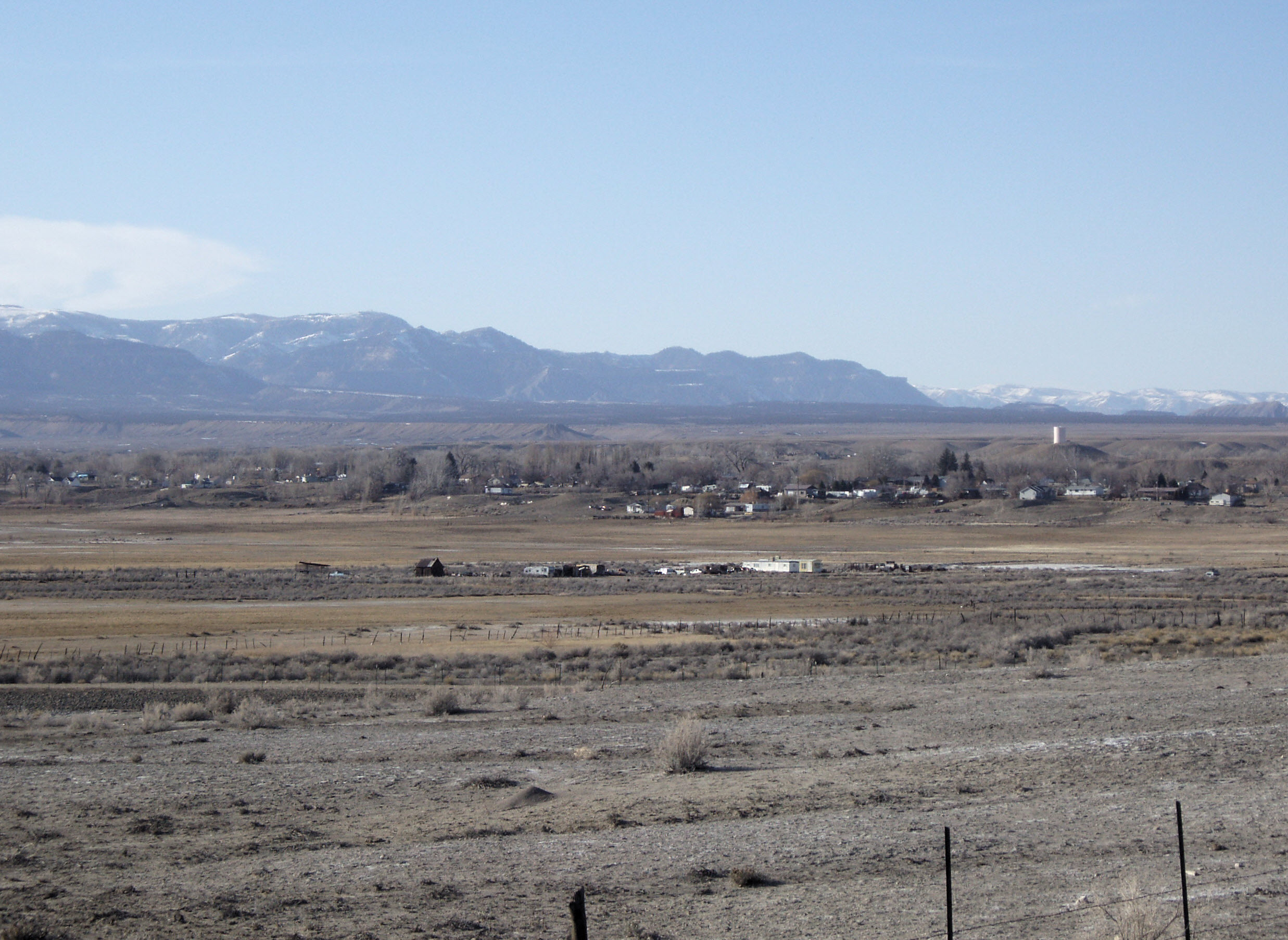 Cleveland, Utah viewed from the south